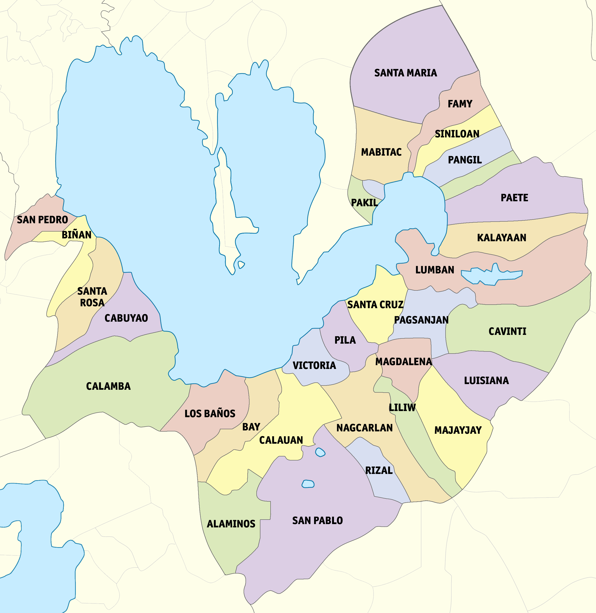 Political map of Laguna, Philippines